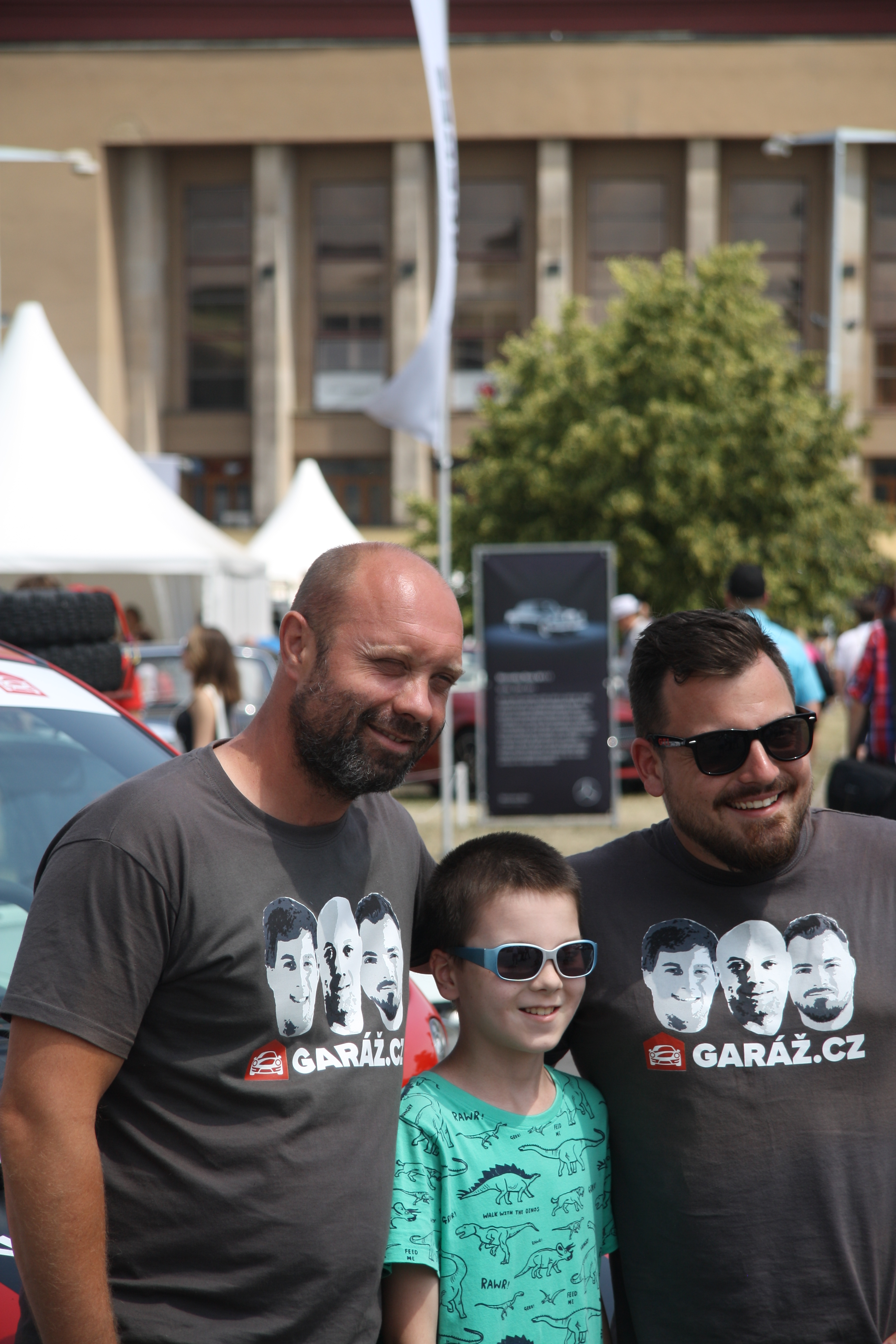 Jakub Rejlek and Jakub Urban at Legendy 2018 in Prague.